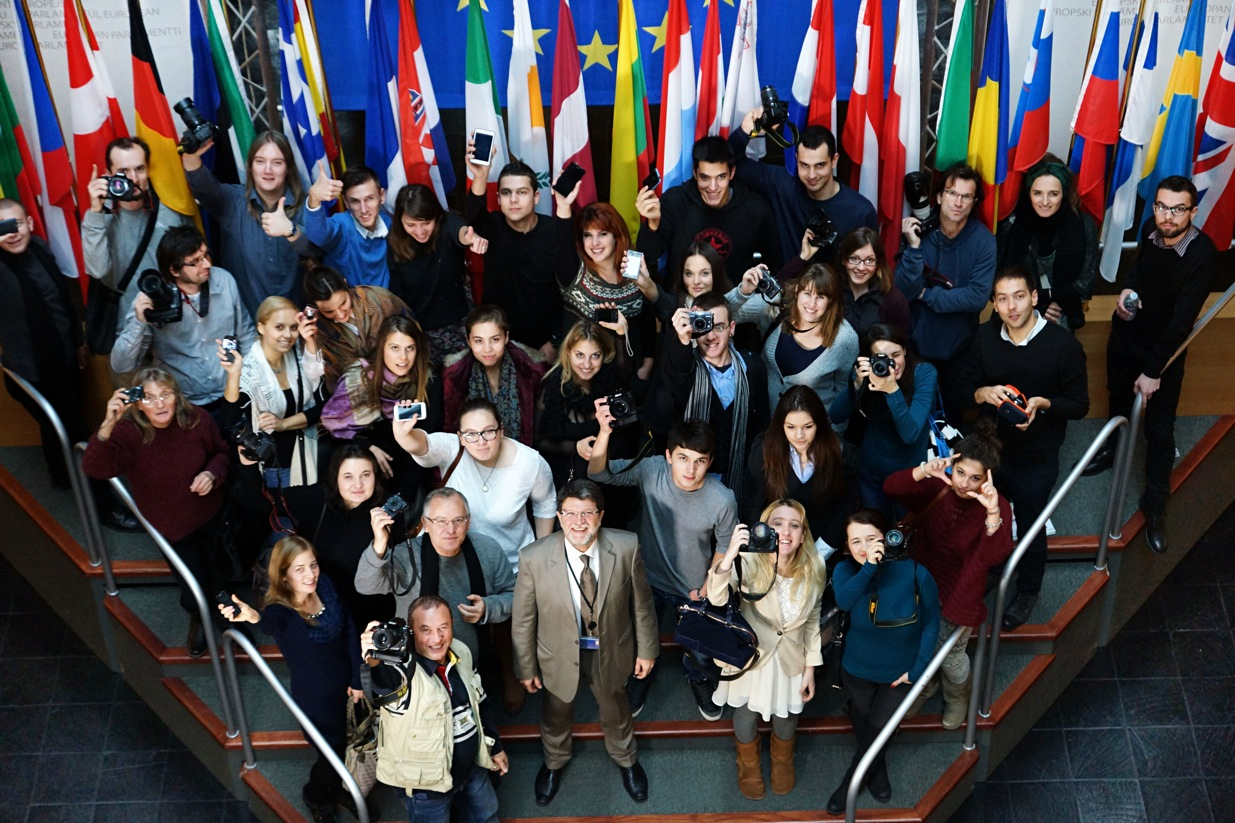 Tonino Picula with a group of visitors in the European Parliament